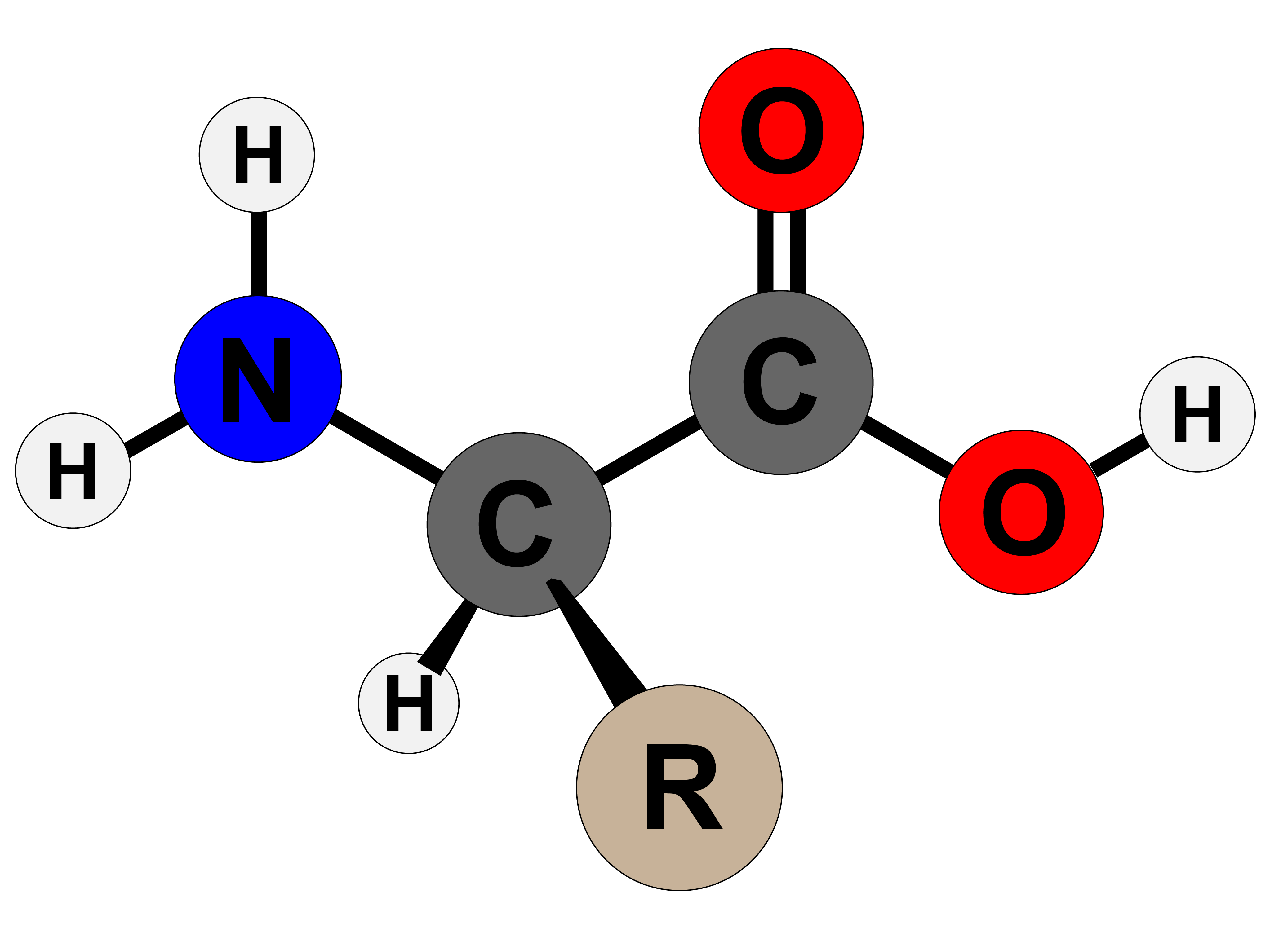 This is the structure of an un-ionized amino acid. The group at the position R can vary among a variety of groups to give different properties to the molecule or protein that it is a part of.